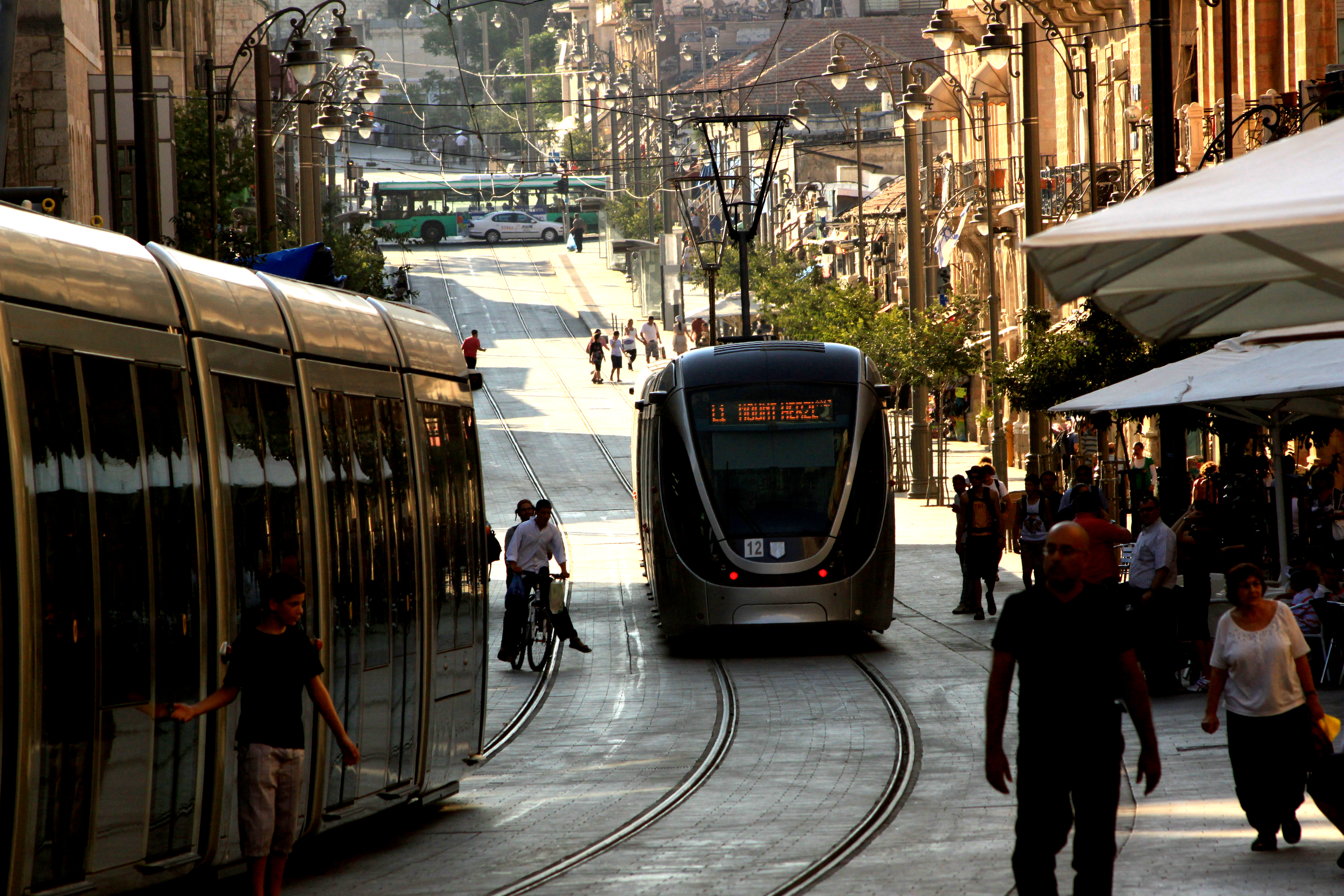 Jerusalem New Light Rail on Jaffa st. - July 11th, 2011 - Israel